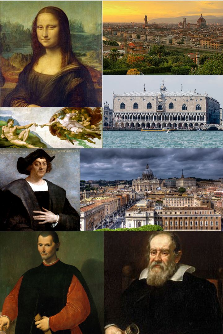 A collage of images related to the Italian Renaissance